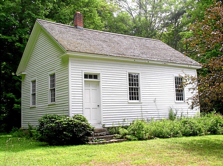 1821 schoolhouse, Barkhamsted, Connecticut; part of the Barkhamsted Center Historic District